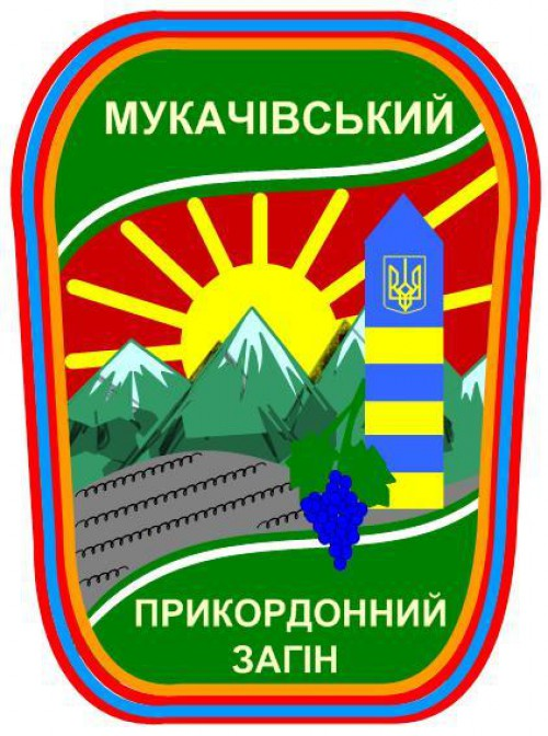 State Border Guard Service Patches of Ukraine